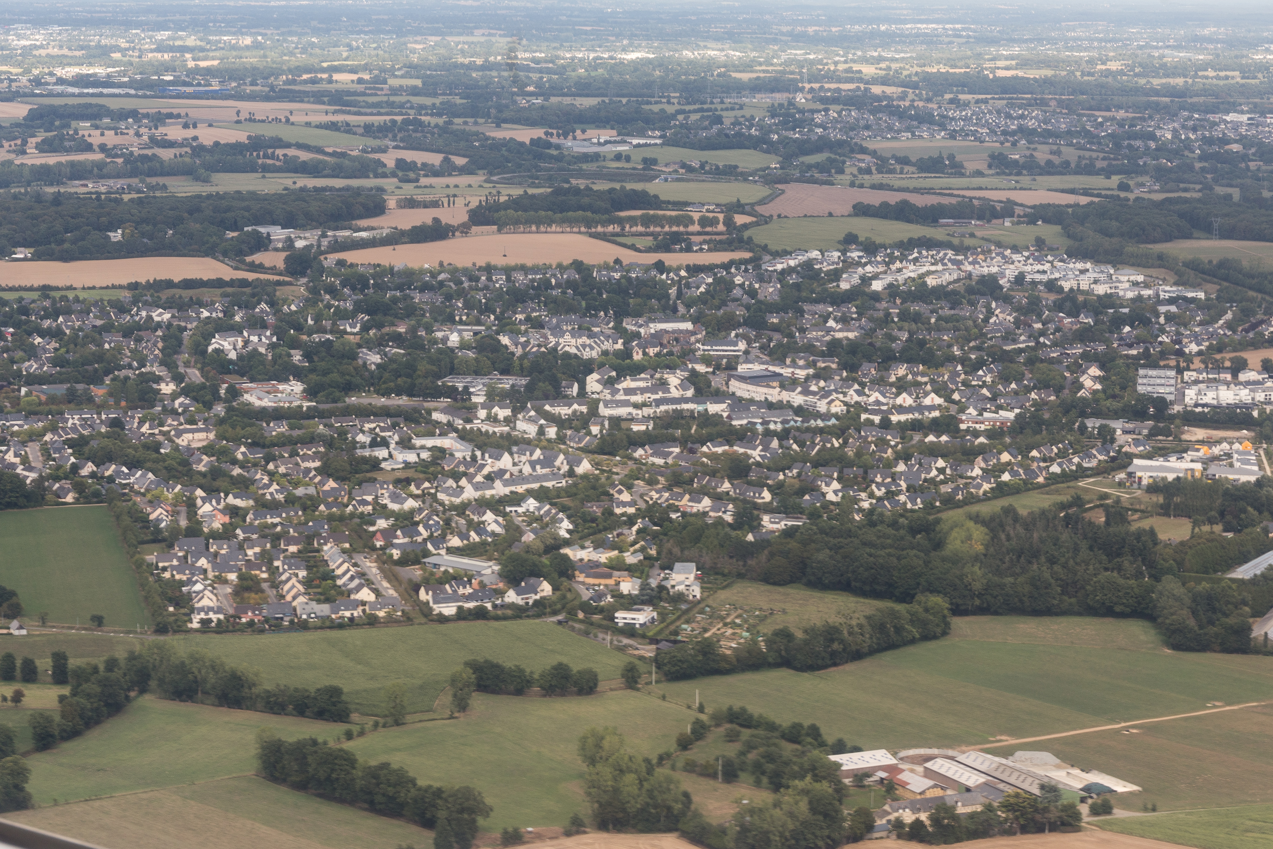 Aerial view of Le Rheu during a flight from CDG to RNS.